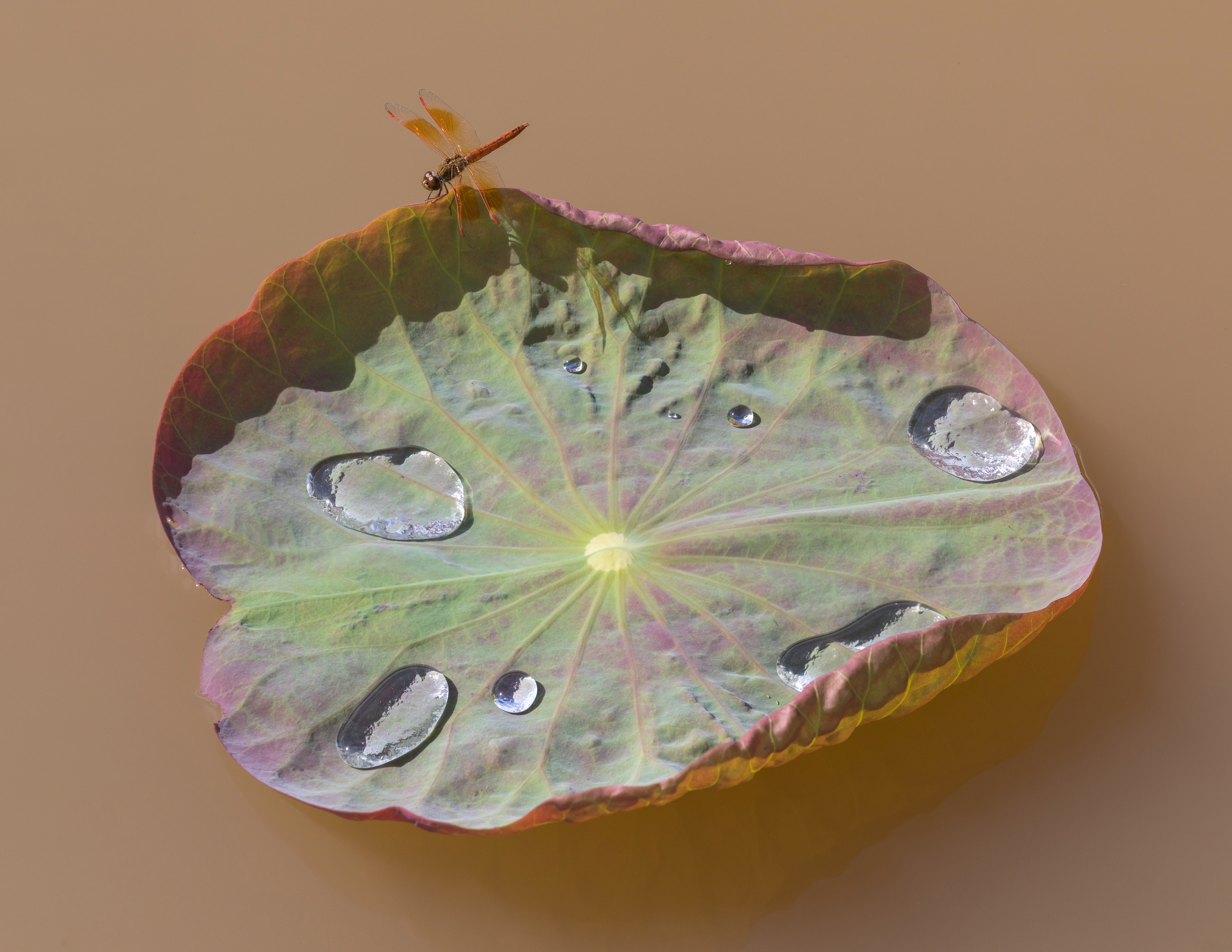 Libellulidae Brachythemis contaminata, male, on Nelumbo nucifera leaf (Sacred lotus) with water drops, at the surface of a muddy pond, in Don Det, Si Phan Don, Laos. The texture of the Nelumbo is ultrahydrophobic and this particularity gave its name to the Lotus effect, when drops of water slide on the surface without wetting it.